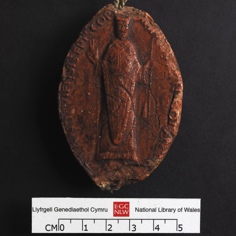 Dyddiad / Date : 1148x1183 Disgrifiad /Description : Nicholas ap Gurgant (ll49-83) Bishop of Llandaff.Man vested for mass and wearing an archaic mitre standing full face blessing with right hand, left hand holding a crosier Rhif ffeil delwedd / Image file no. : sea00069 Rhagor o wybodaeth am brosiect Seliau yng Nghymru'r Oesoedd Canol More information about the Seals in Medieval Wales project